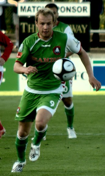 Guntars Silagailis playing for Cork City FC.